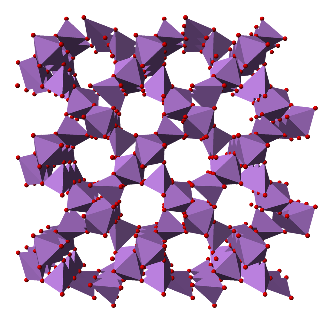 Polyhedral model of part of the crystal structure of arsenic pentoxide, As2O5. X-ray crystallographic data from Martin Jansen (1977). "Crystal Structure of As2O5". Angewandte Chemie International Edition in English 16 (5): 314-315.